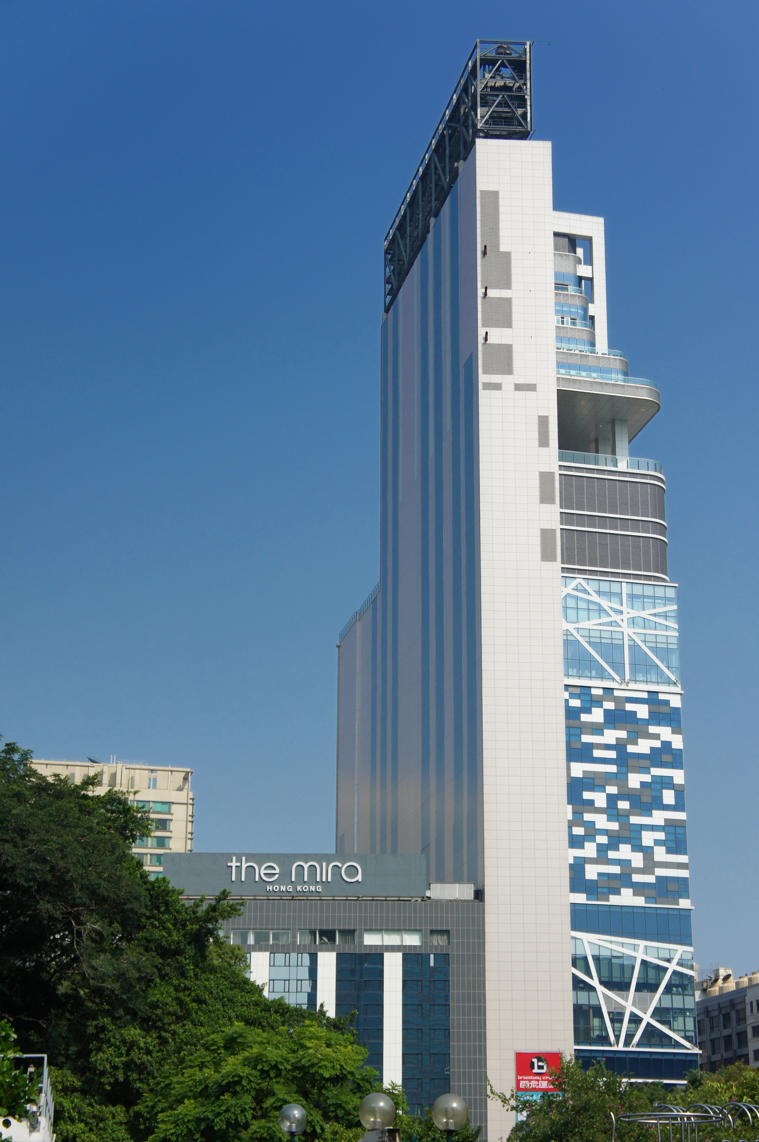 The ONE viewing from Kowloon Park, Tsim Sha Tsui, Kowloon, Hong Kong.